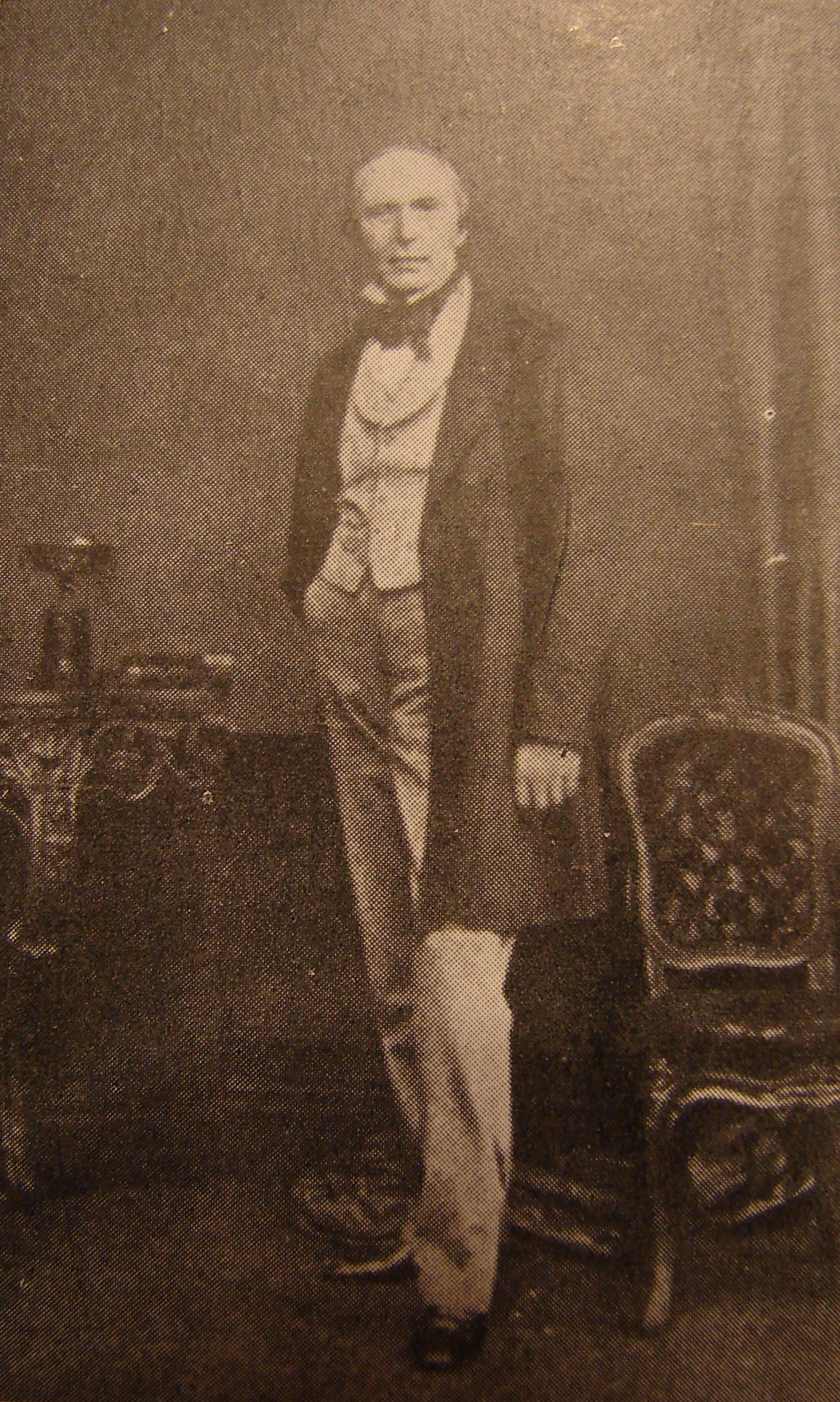 Photographic portrait of Louis Haghe, lithographer and water-colourist